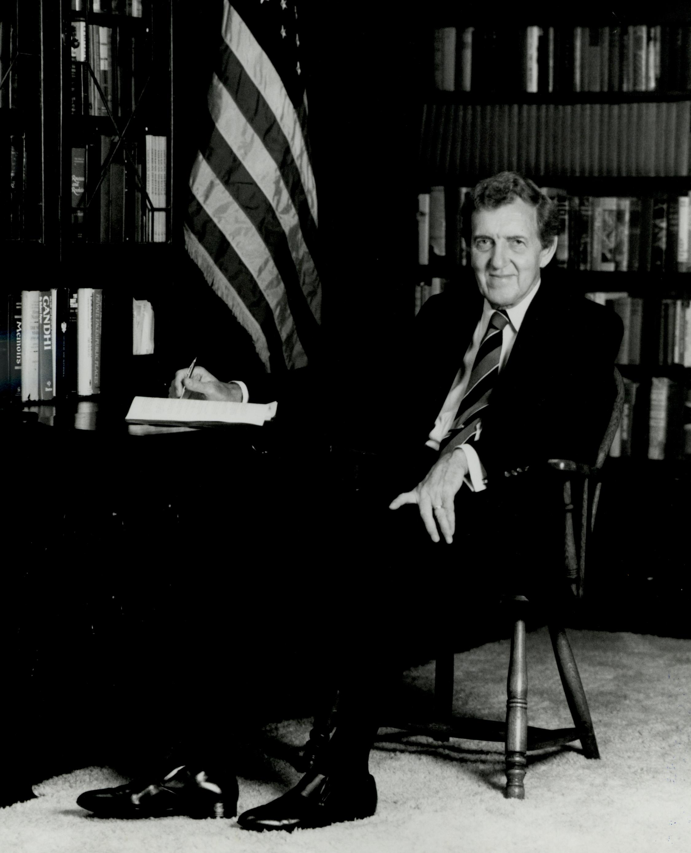 Edmund Sixtus Muskie, U.S. Secretary of State, May 8, 1980 to January 18, 1981: taken during a photo-op in Southwest Employment Area, Washington